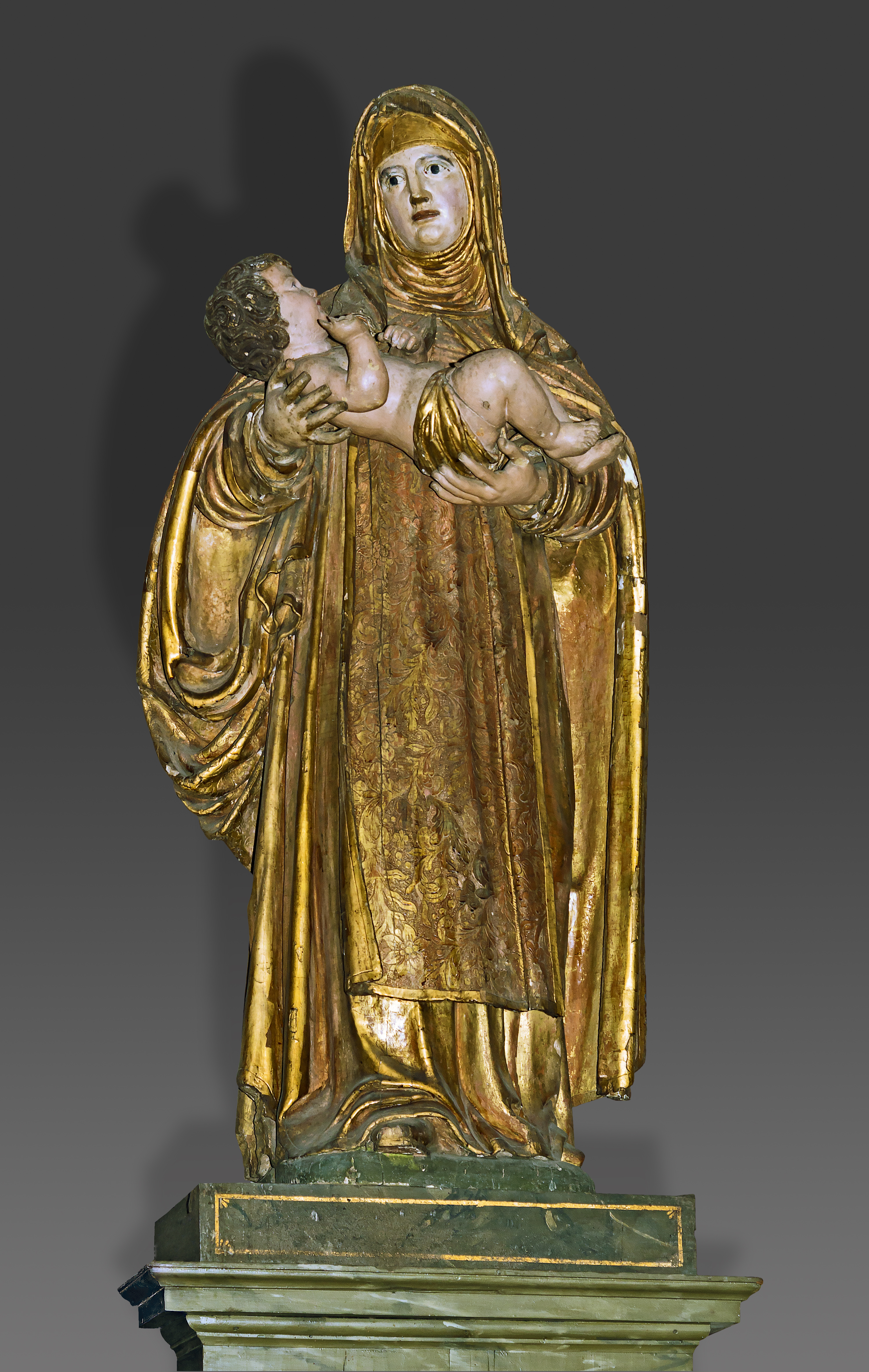 Church Saint-Exupère from Toulouse. The statue of Rose of Lima, by Thibaud Maistrier. First half 17th century. Materials: painted wood